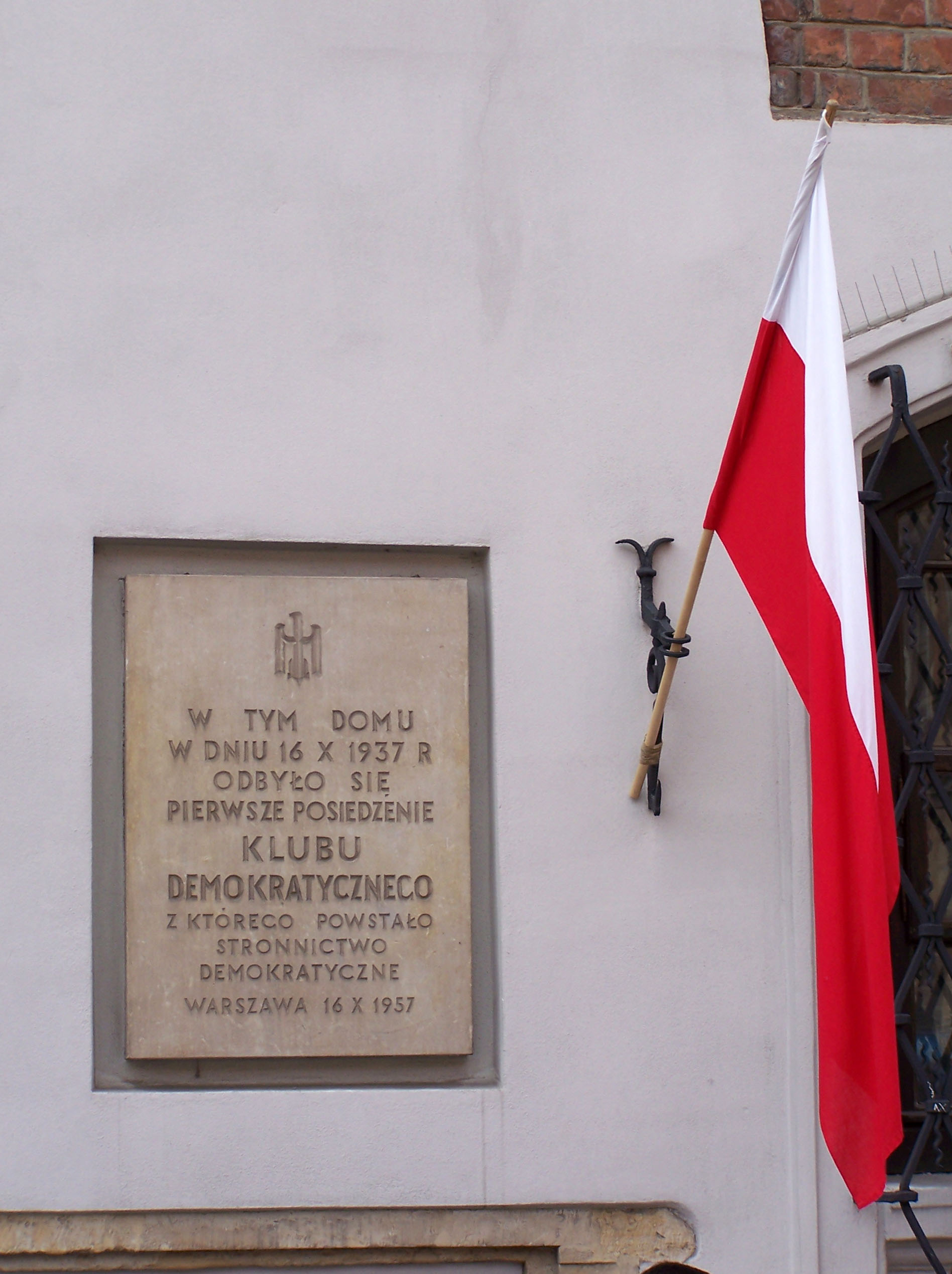 Memorial plaque at the house, where the first meeting of the Democratic Club took place, in Warsaw, Poland